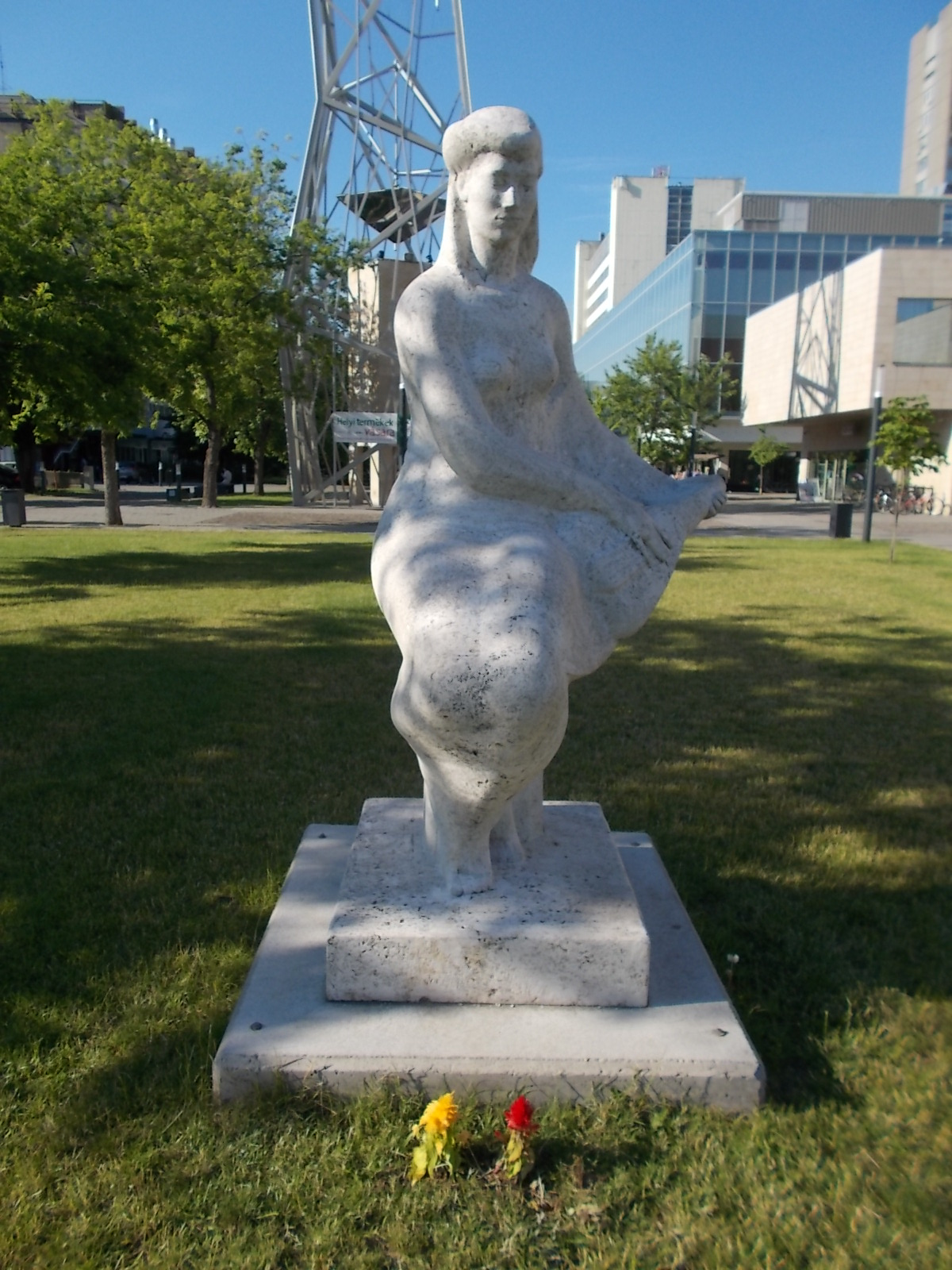 The musician or the Mandolin woman by István Nagy, 1983 works. - Hild Square, Szolnok, Jász-Nagykun-Szolnok County, Hungary.